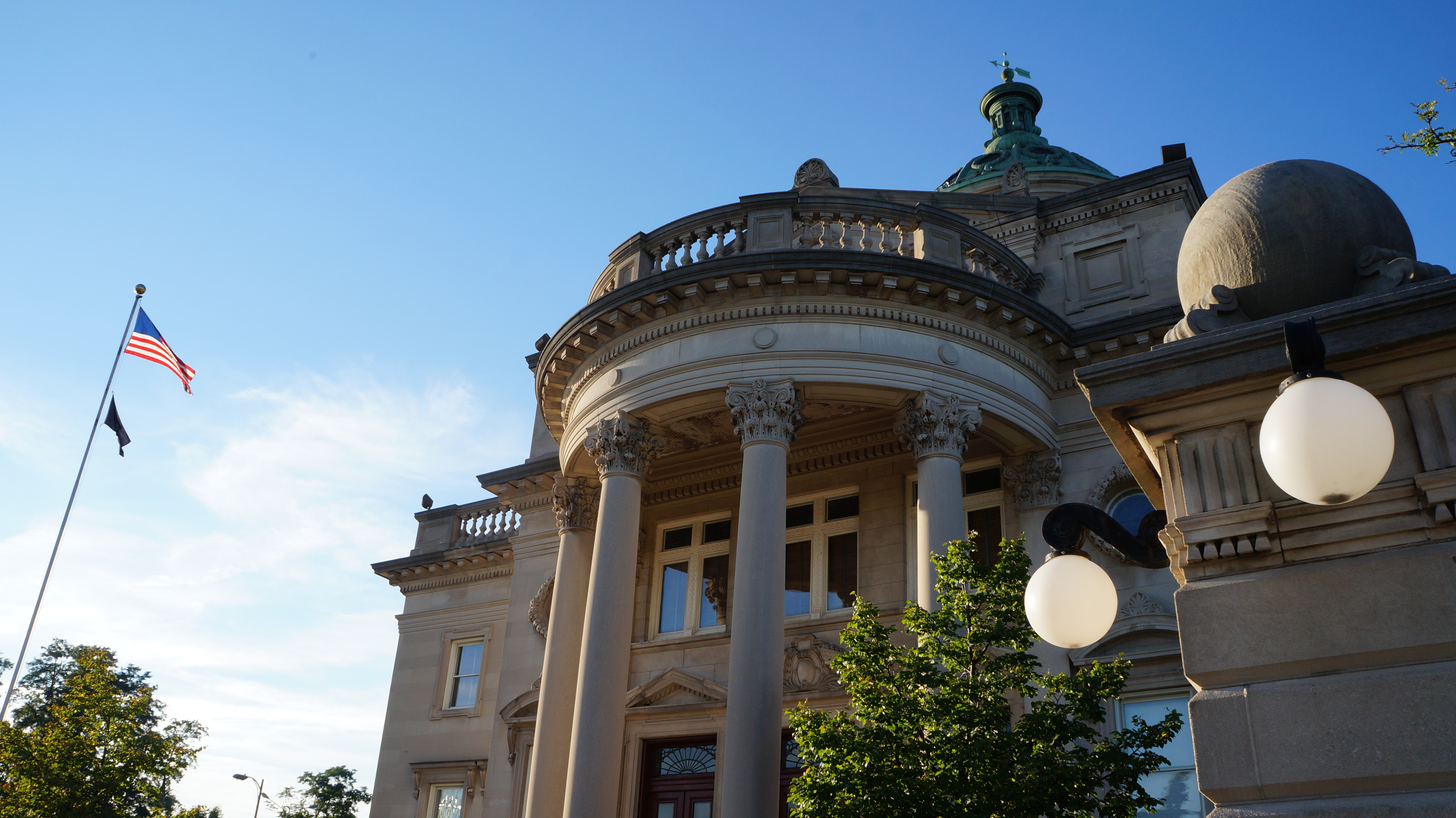 Somerset County Court